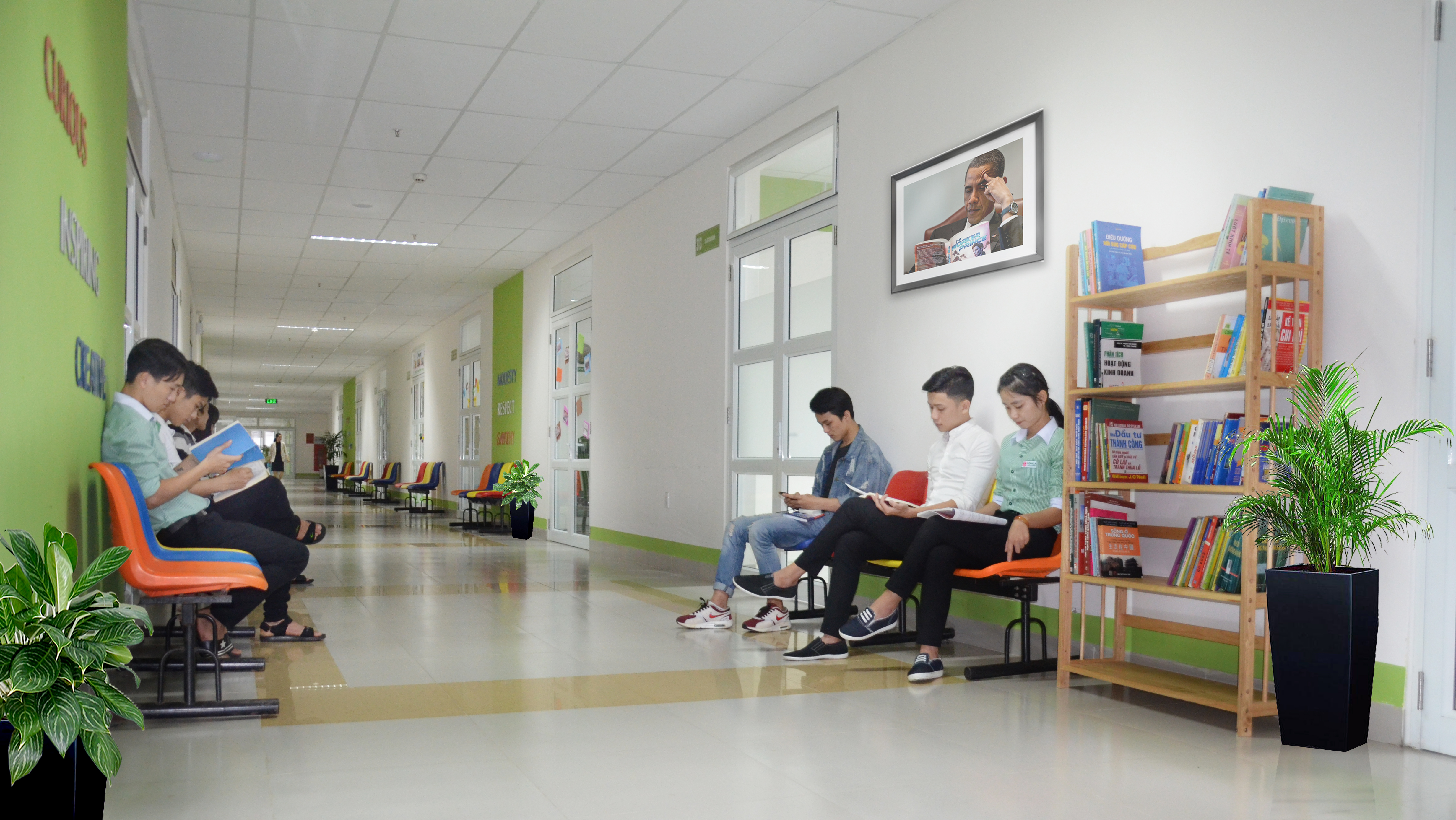 Study space at Đông Á University